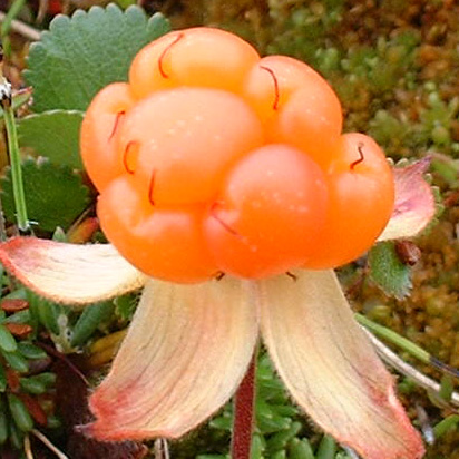 Cloudberry